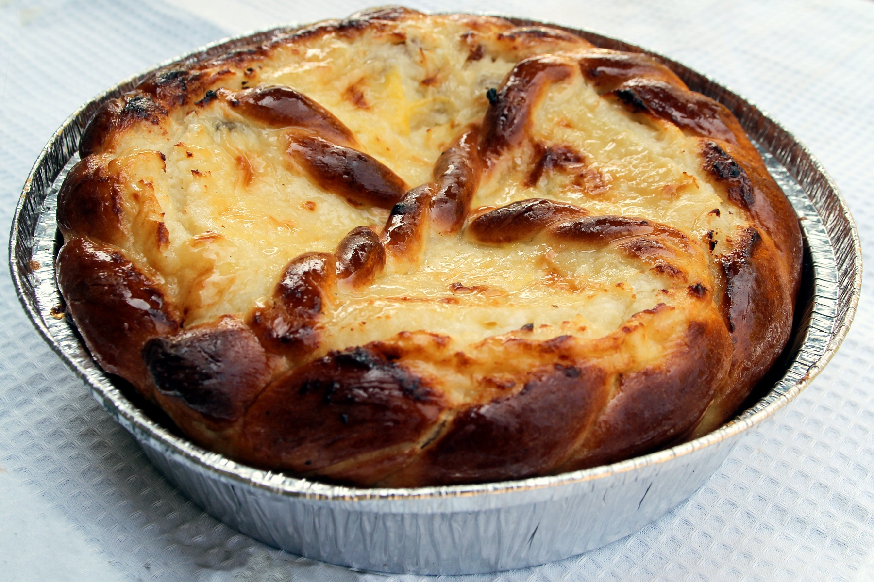 Pască is a traditional Romanian cake for Easter